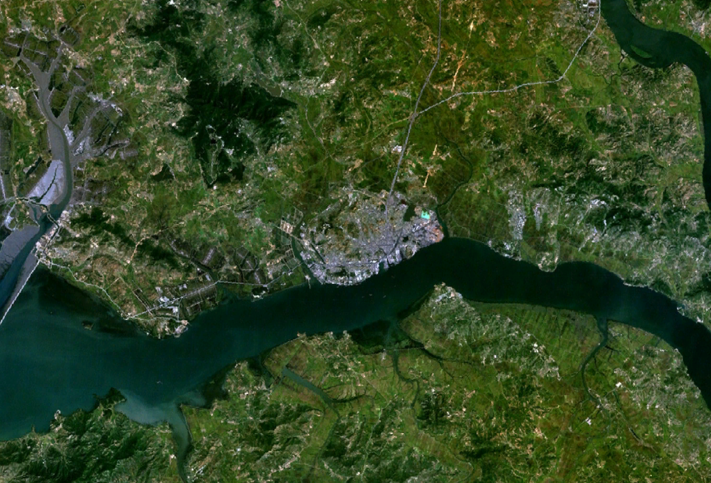 Satellite shot showing the port of Nampho, North Korea (the gray mass near the center of the image), from an altitude of 17.5 km.